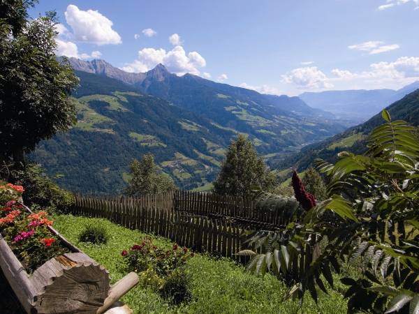 The Passeiertal / Passeier Valley